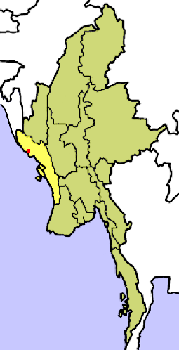 Location of Rakhine (Arakan)-State in Myanmar w/ capital